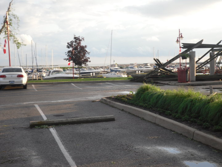 After the June -6, 2010 tornado in Leamington, various parts of the marina were destroyed. Post aftermath.